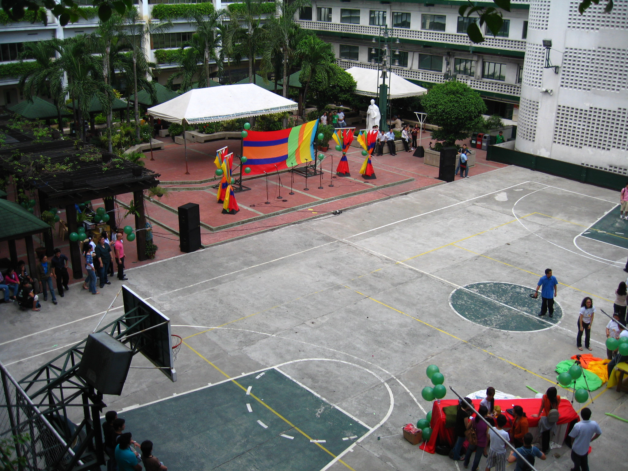 Plaza Villarosa of DLS-CSB. Self-taken.